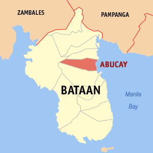 Map of Bataan showing the location of Abucay